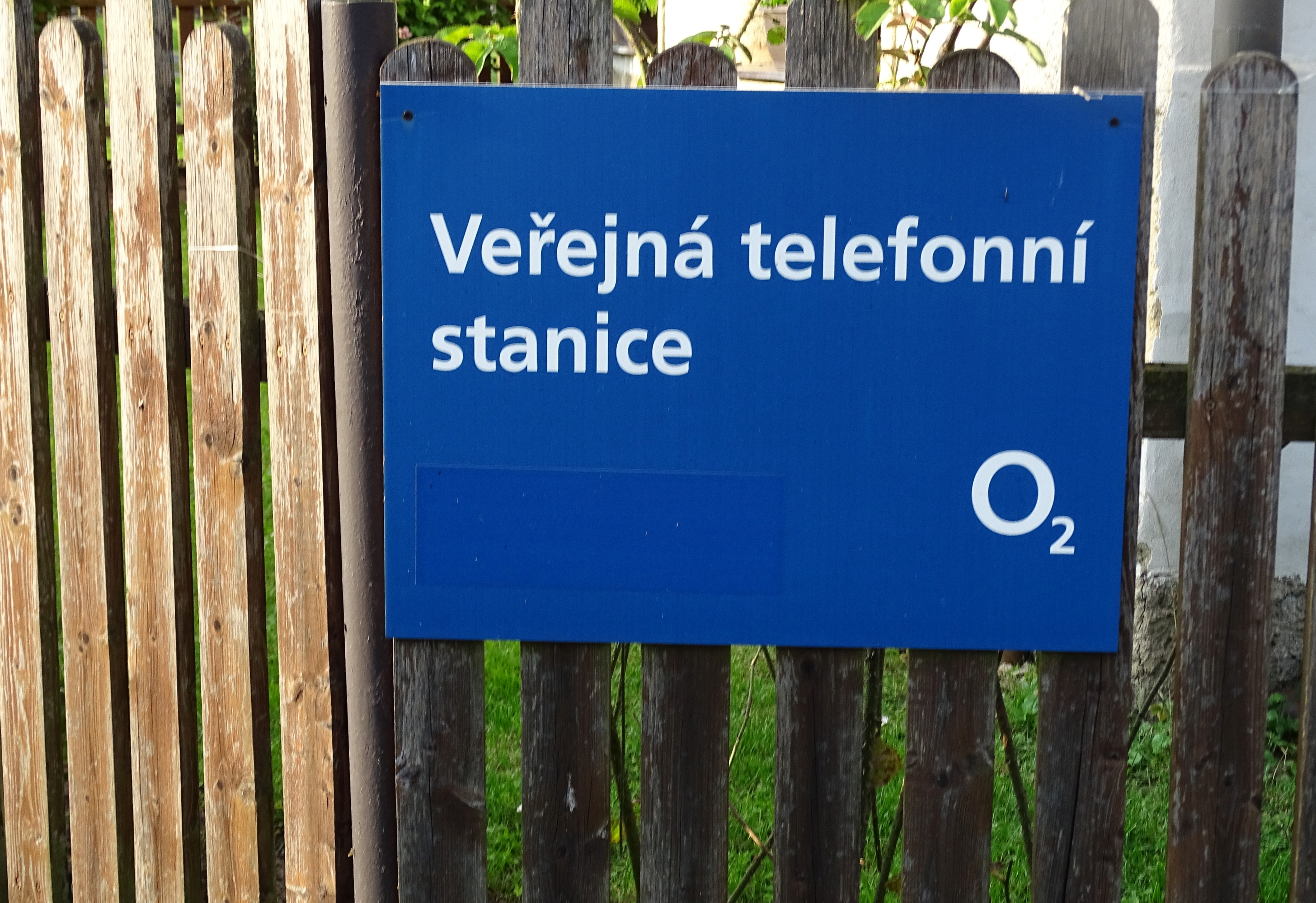 Hradiště, Rokycany District, Plzeň Region, the Czech Republic. House no. 10, a public telephone station.